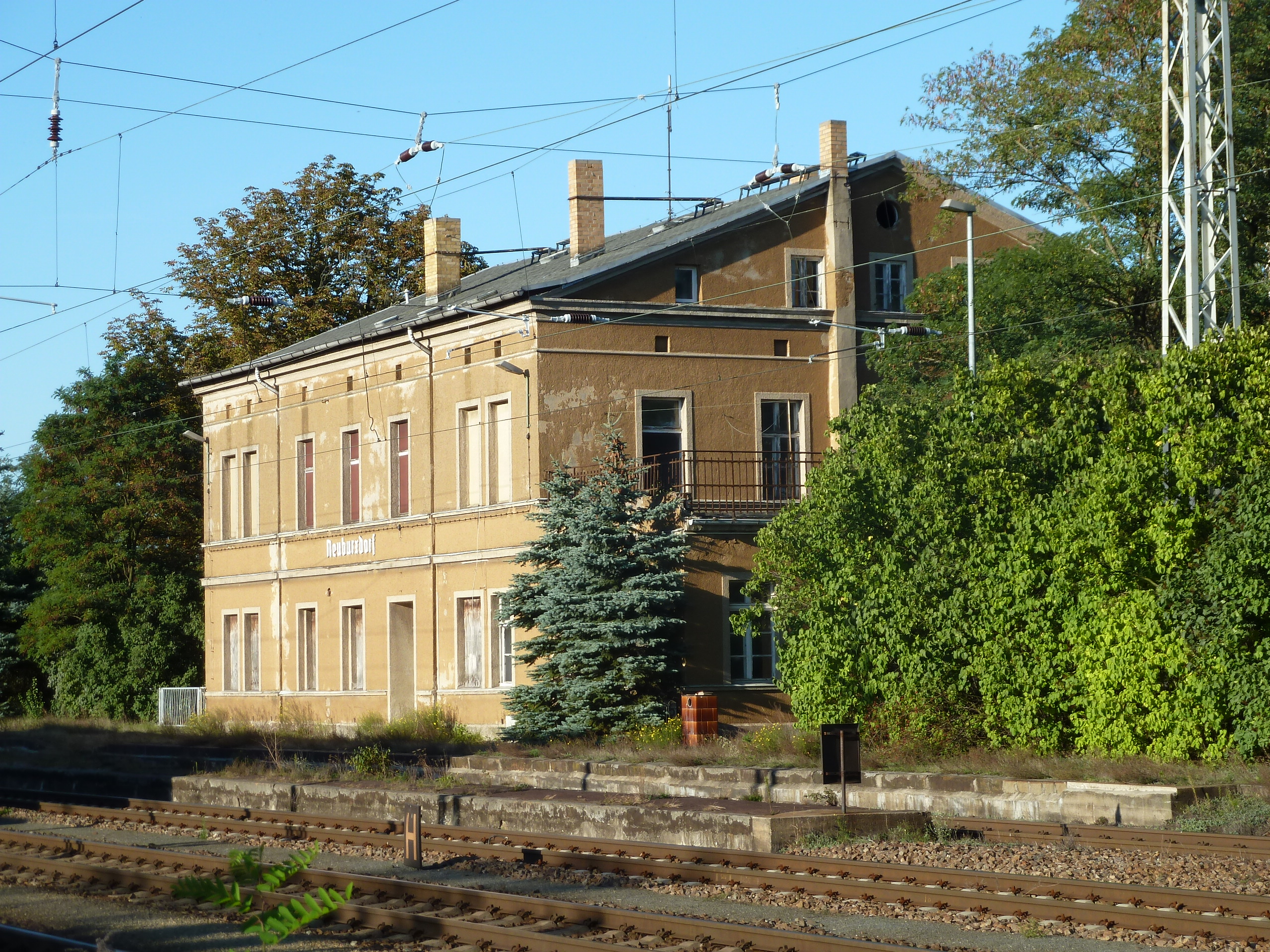 Neuburxdorf railway station